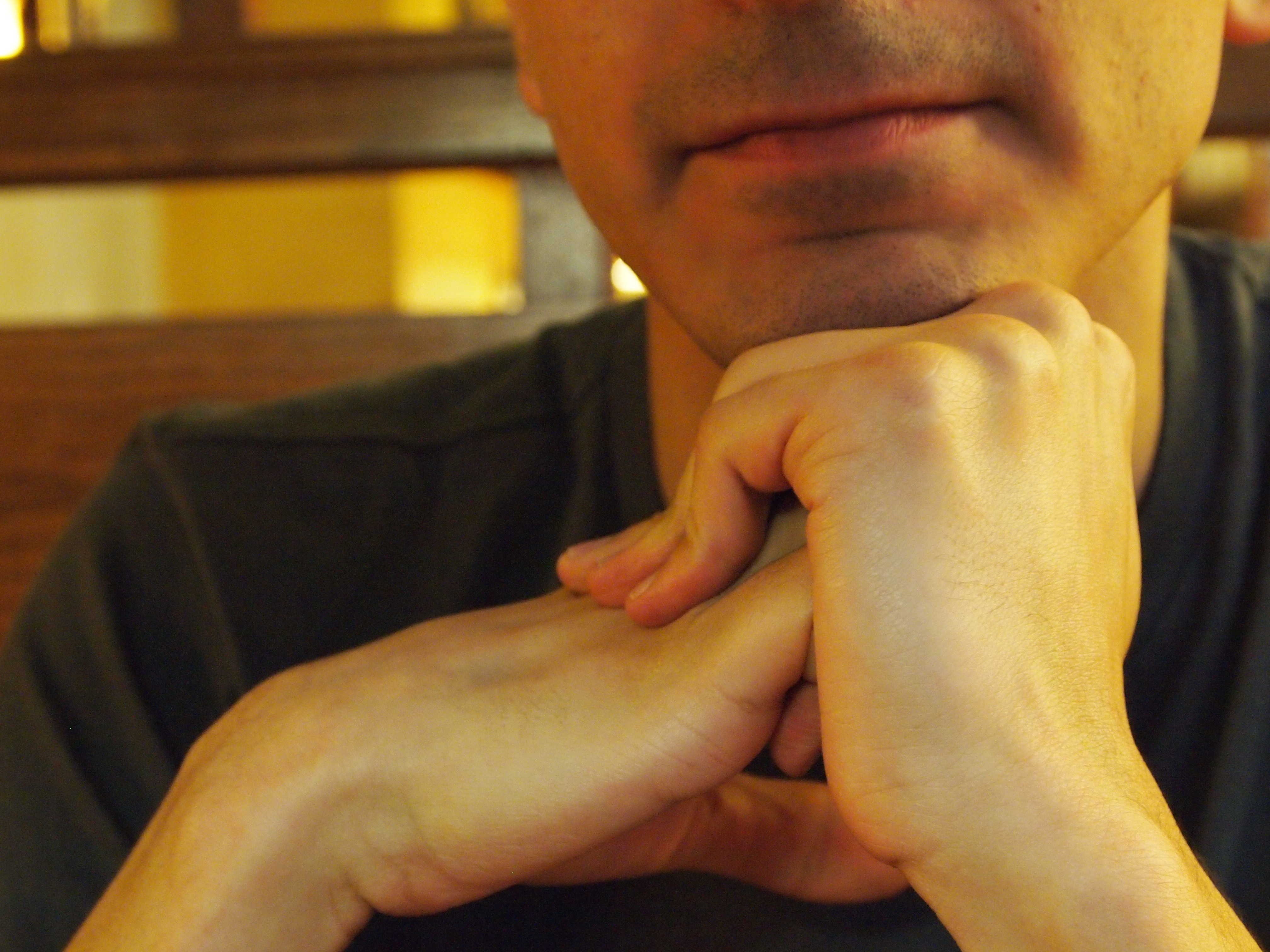 Cracking knuckles